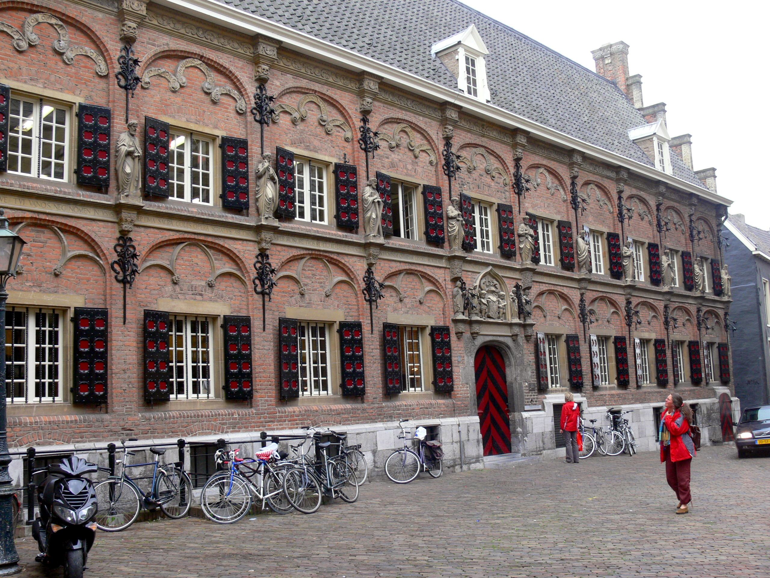 Old Latinschool in Nijmegen ( Gelderland )